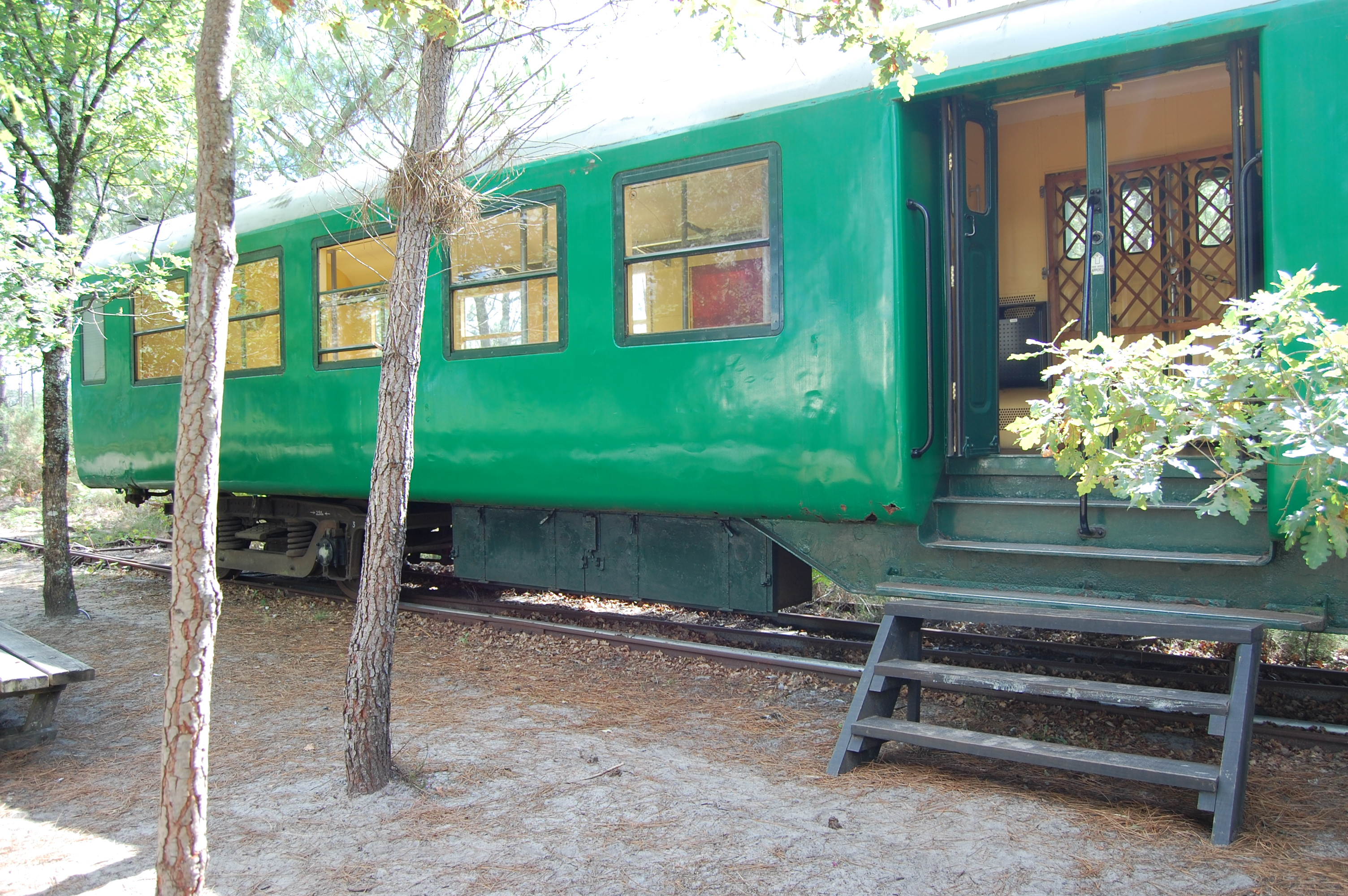 Voiture Bruhat à Marquèze.